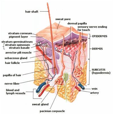 Anatomy of the human skin with English language labels. Arabic language description translated by: Tarawneh